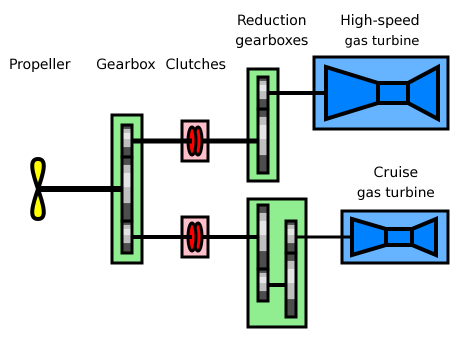 Diagram of a COGOG propulsion system. Note that a real COGOG installation would use a different clutch and gearbox arrangement. (Own work) Combined gas or gas COGOG